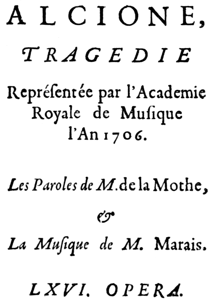 Marin Marais - Alcione - title page of the libretto - Paris 1706